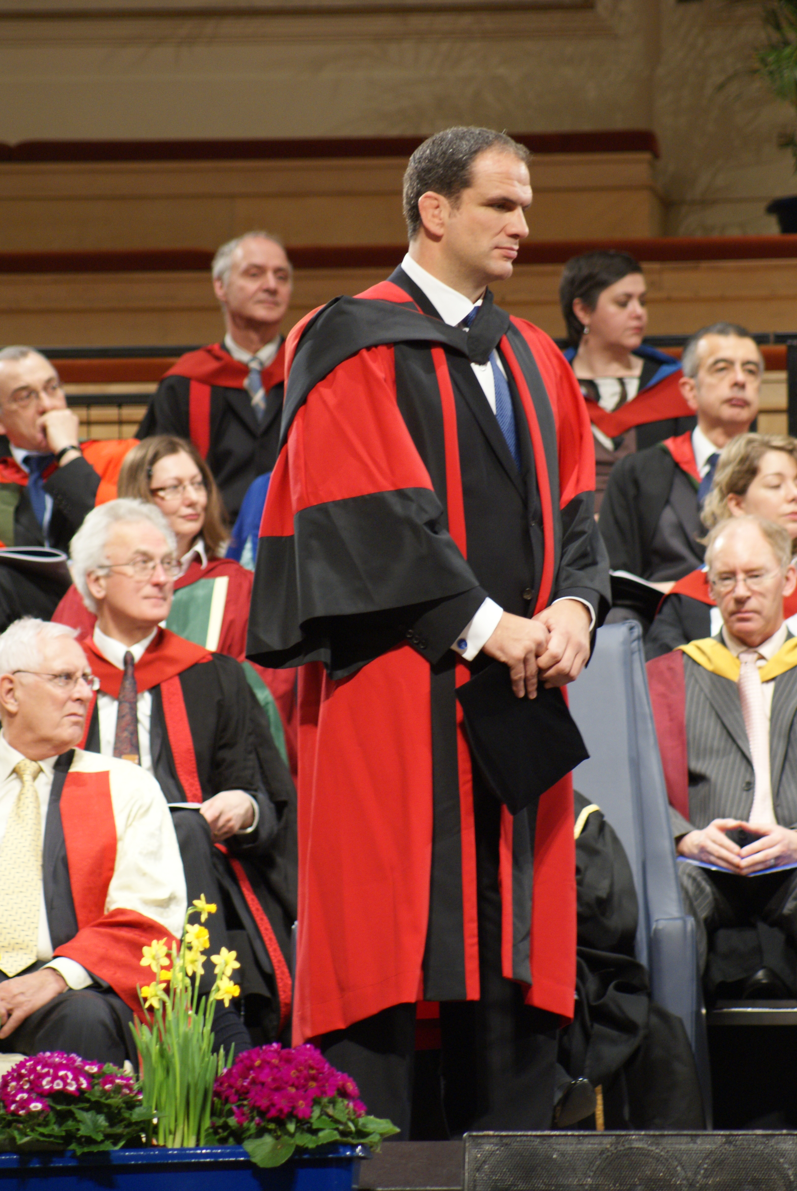 Martin Johnson at Leicester University Degree Ceremony.